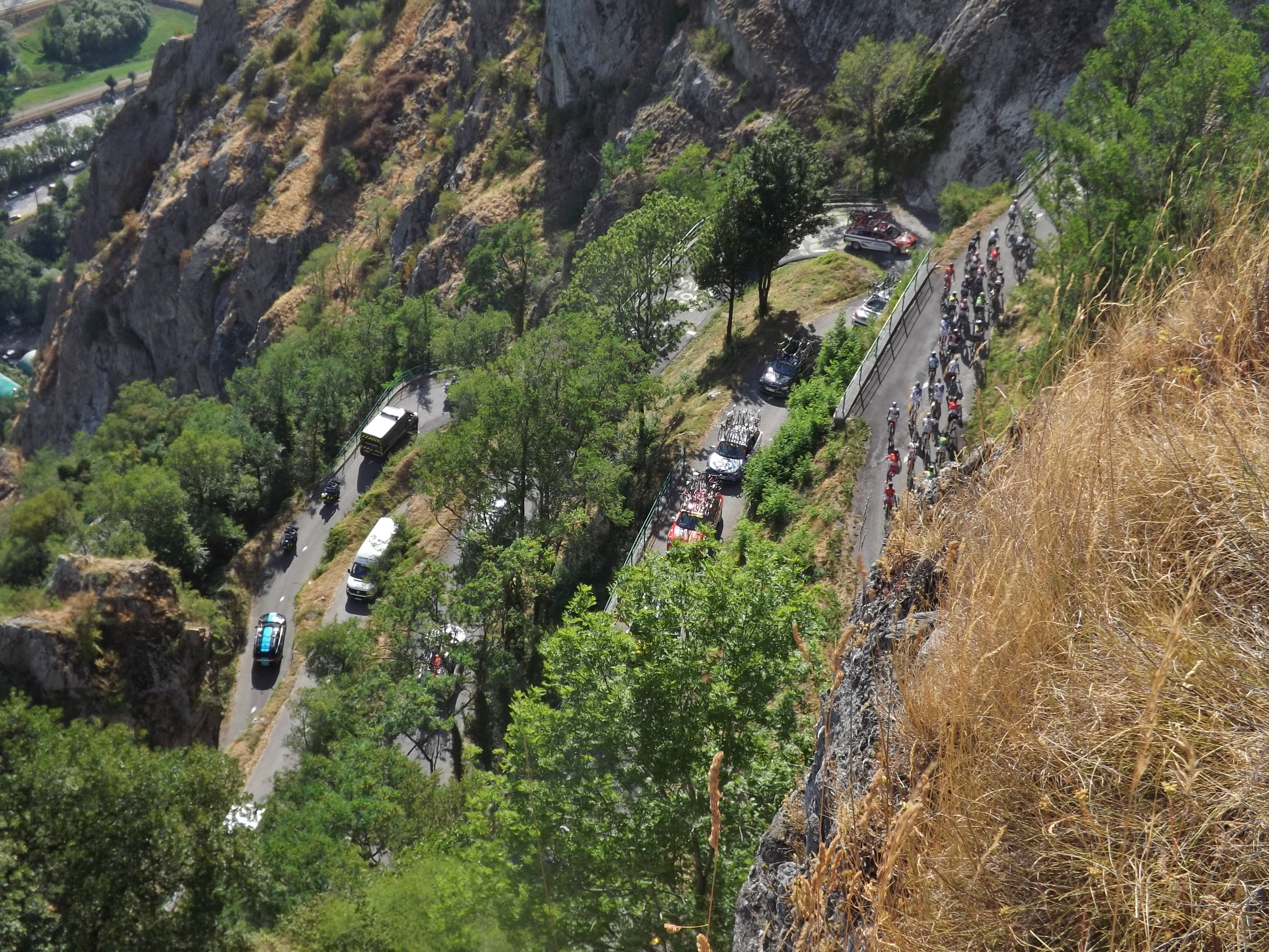 Sight of the Tour de France 2015 climbing the 18 lacets de Montvernier road bends, in the Maurienne valley (Savoie) during the 18th stage.